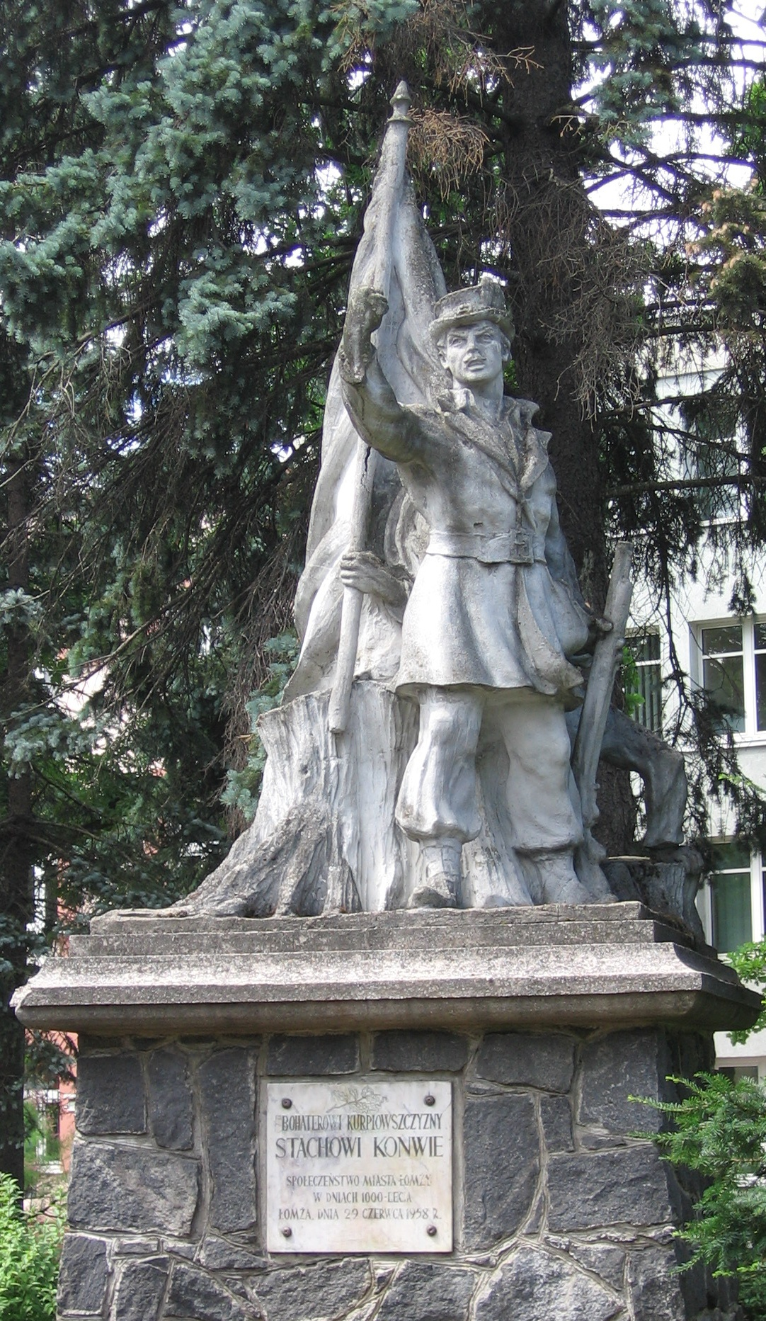 Monument of Stach Konwa (legendary Kurp hero) in Łomża Annotation on the monument: In memory of Kurp hero STACH KONWA society of Łomża City in the millennium day; Łomża City, June 29th 1958